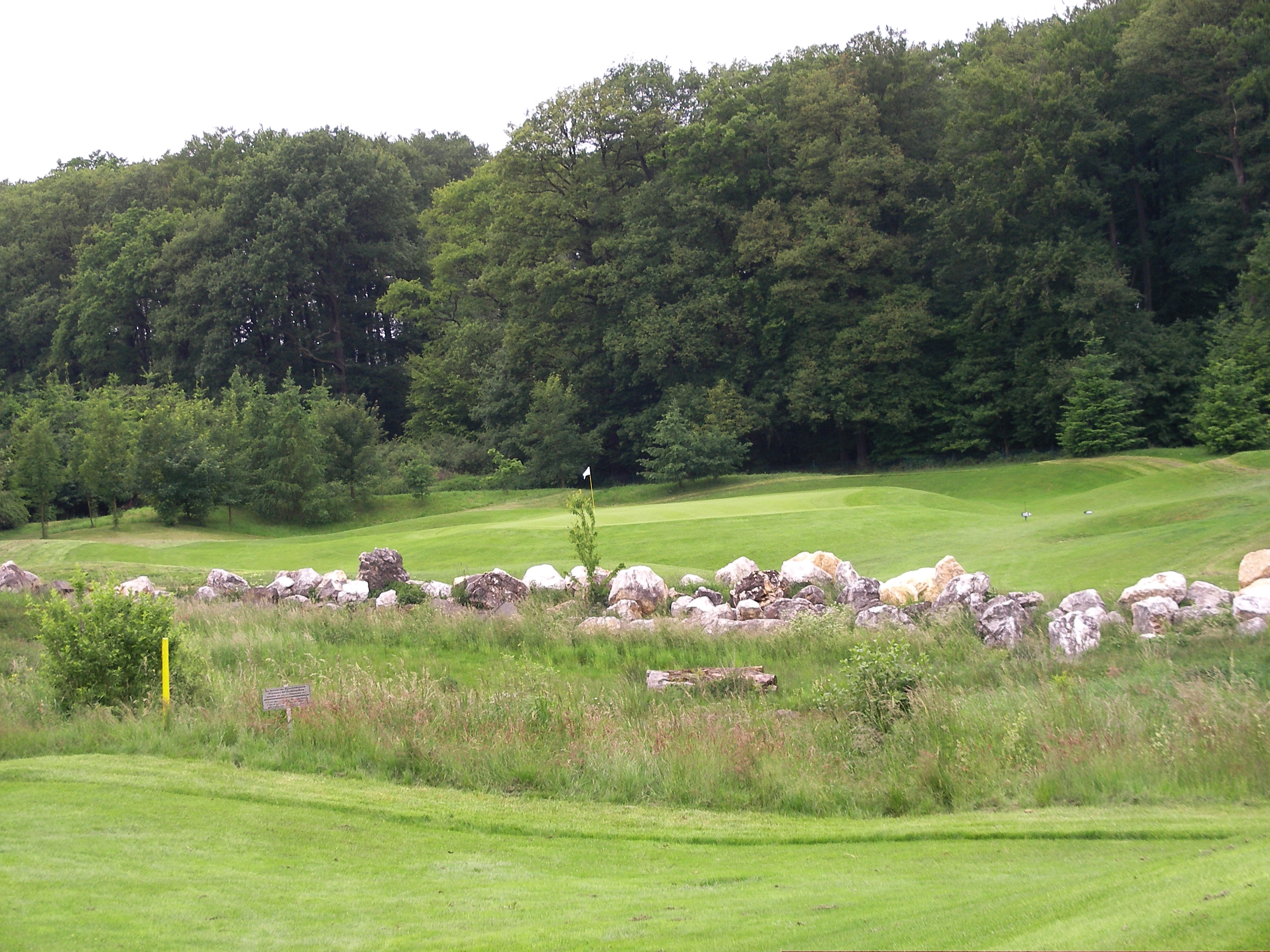 3rd Green of Jakobsberg Golf Course, Boppard, Germany